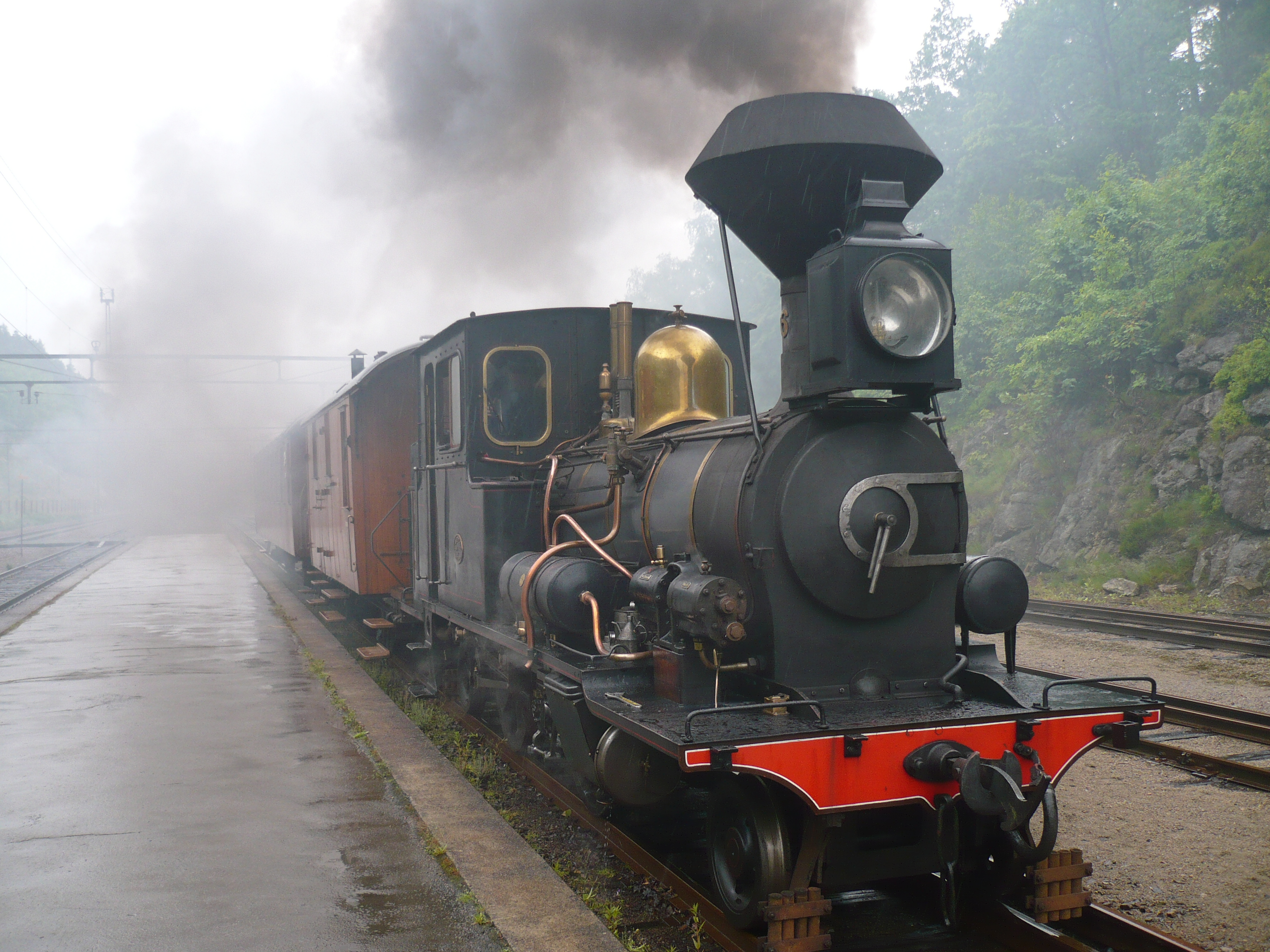 Class XXI steam locomotive on the Setesdalen Line